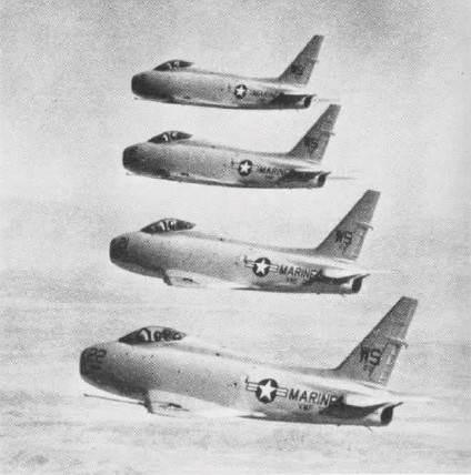 North American FJ-4B Fury fighters of Marine attack squadron VMA-323 Death Rattlers near MCAS El Toro in 1957/58.